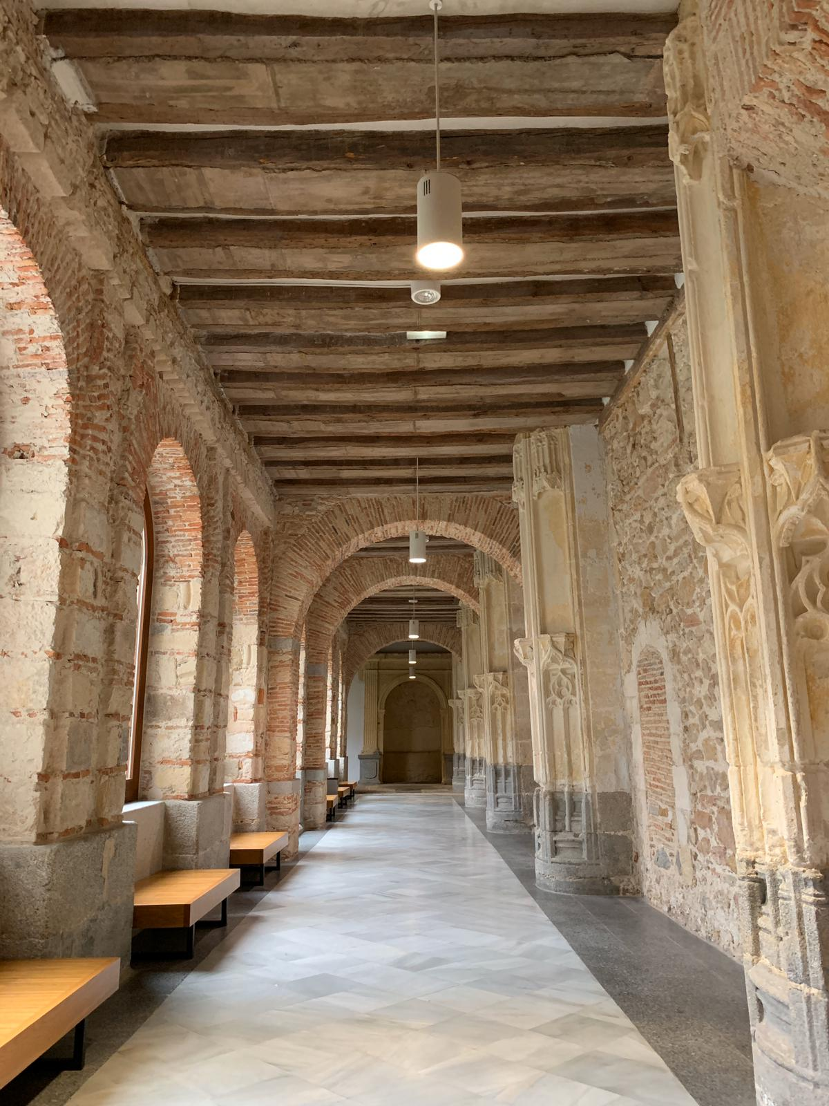 Renovated IE University hall, 2019